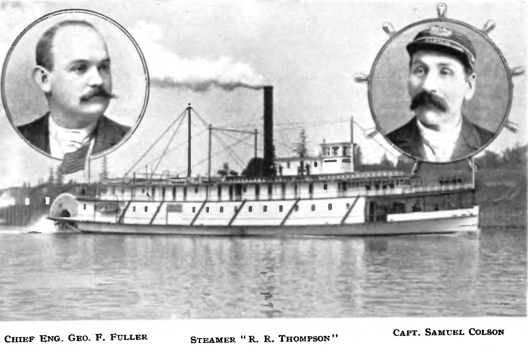 photograph of R.R. Thompson and two of her officers, Chief Engineer Geo F. Fuller and Captain Samuel Colson.